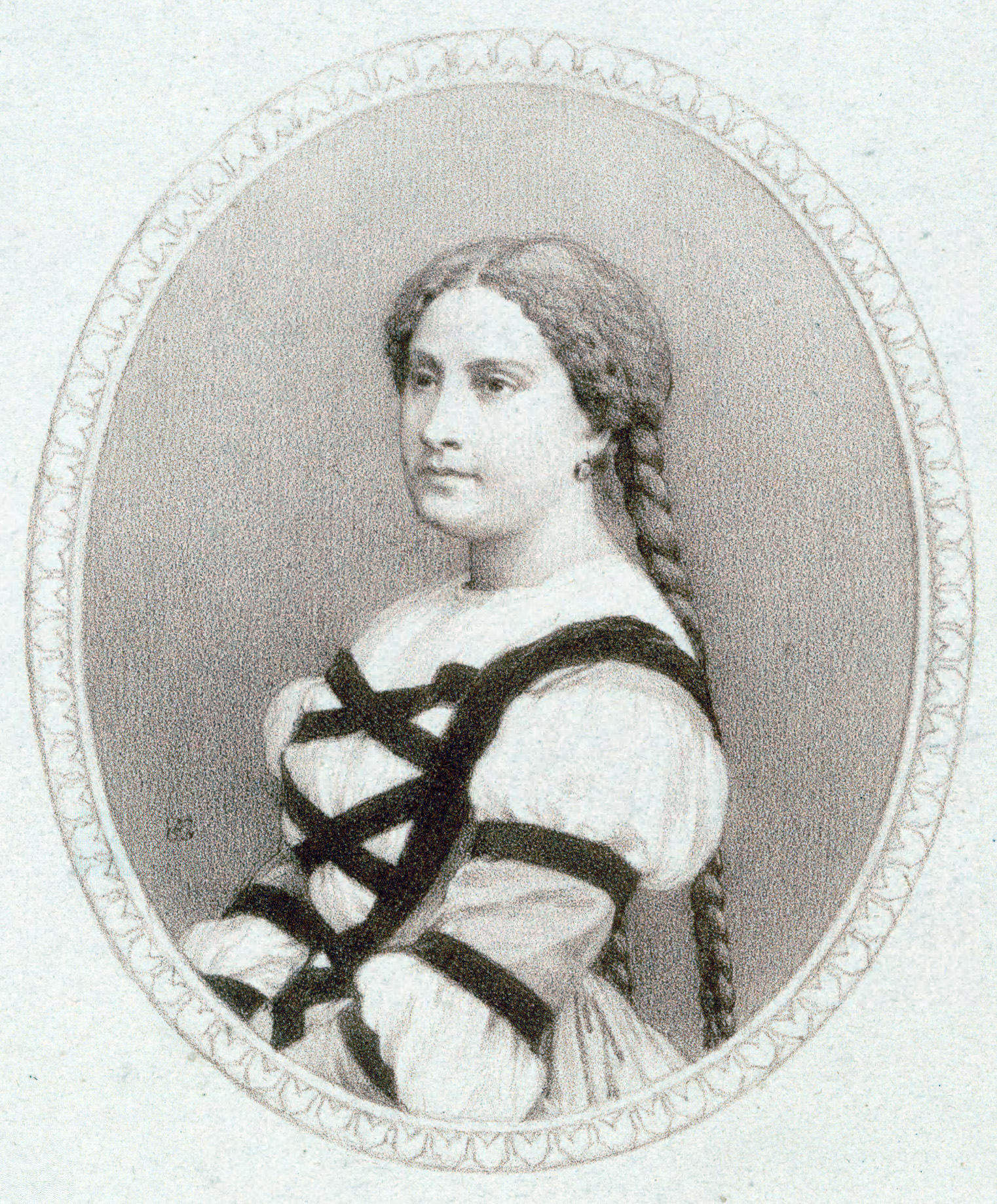 Caroline Carvalho as Margueurite in the opera Faust by Gounod.